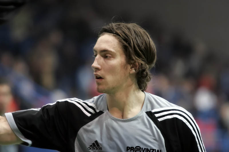 Marcus Ahlm, on December 30th 2006 in Aschaffenburg (Germany), during the warm-up prior the game TV Grosswallstadt - THW Kiel (25:30)